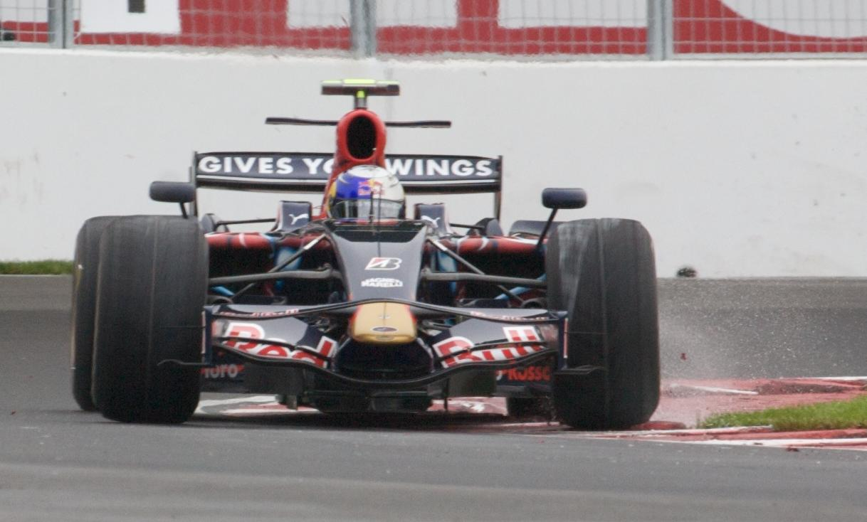 Sebastian Vettel driving for Scuderia Toro Rosso at the 2008 Canadian Grand Prix.